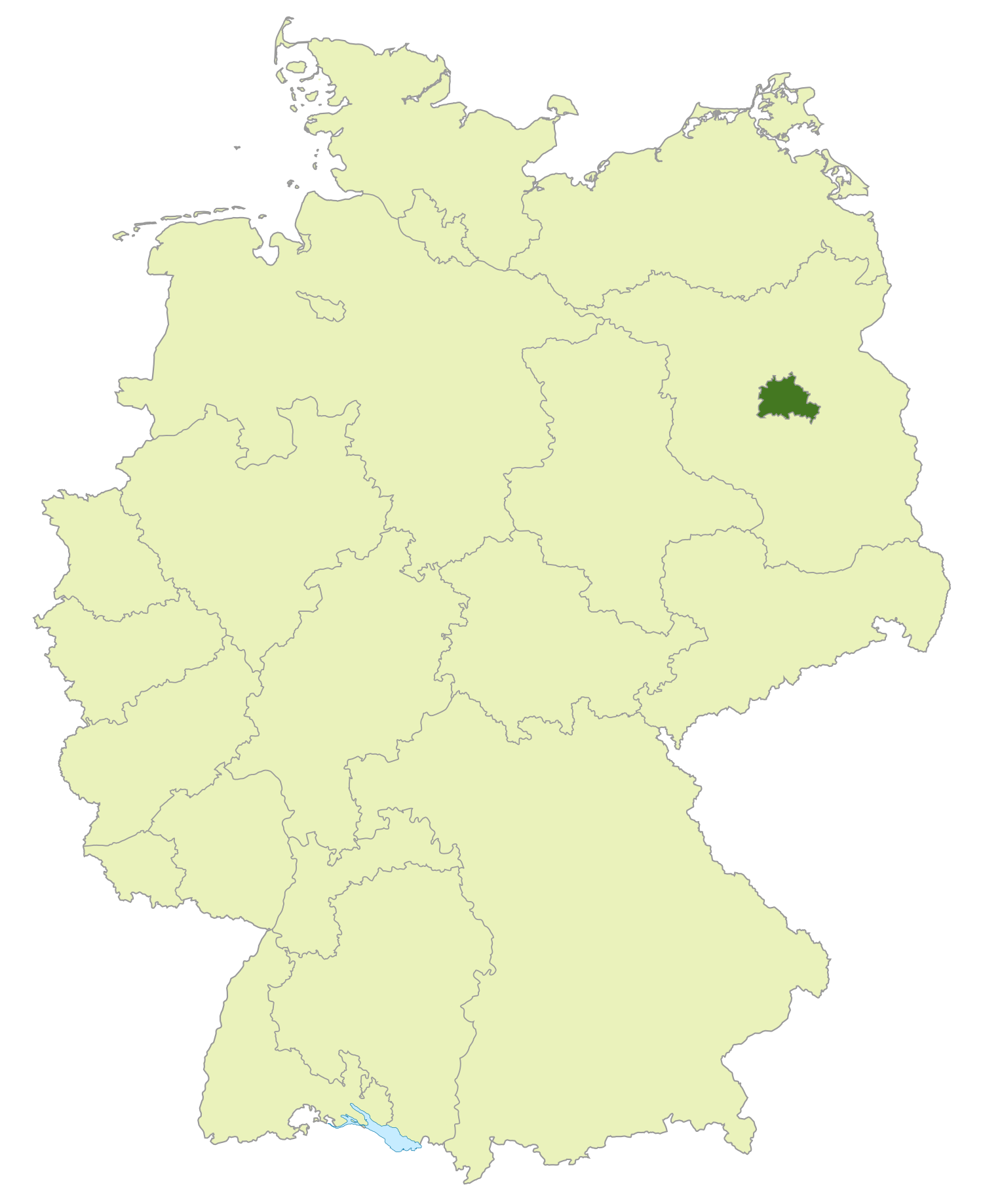 Map of regional soccer association Berlin, Germany